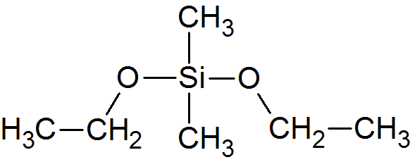 Chemical structure of Dimethyldiethoxysilane